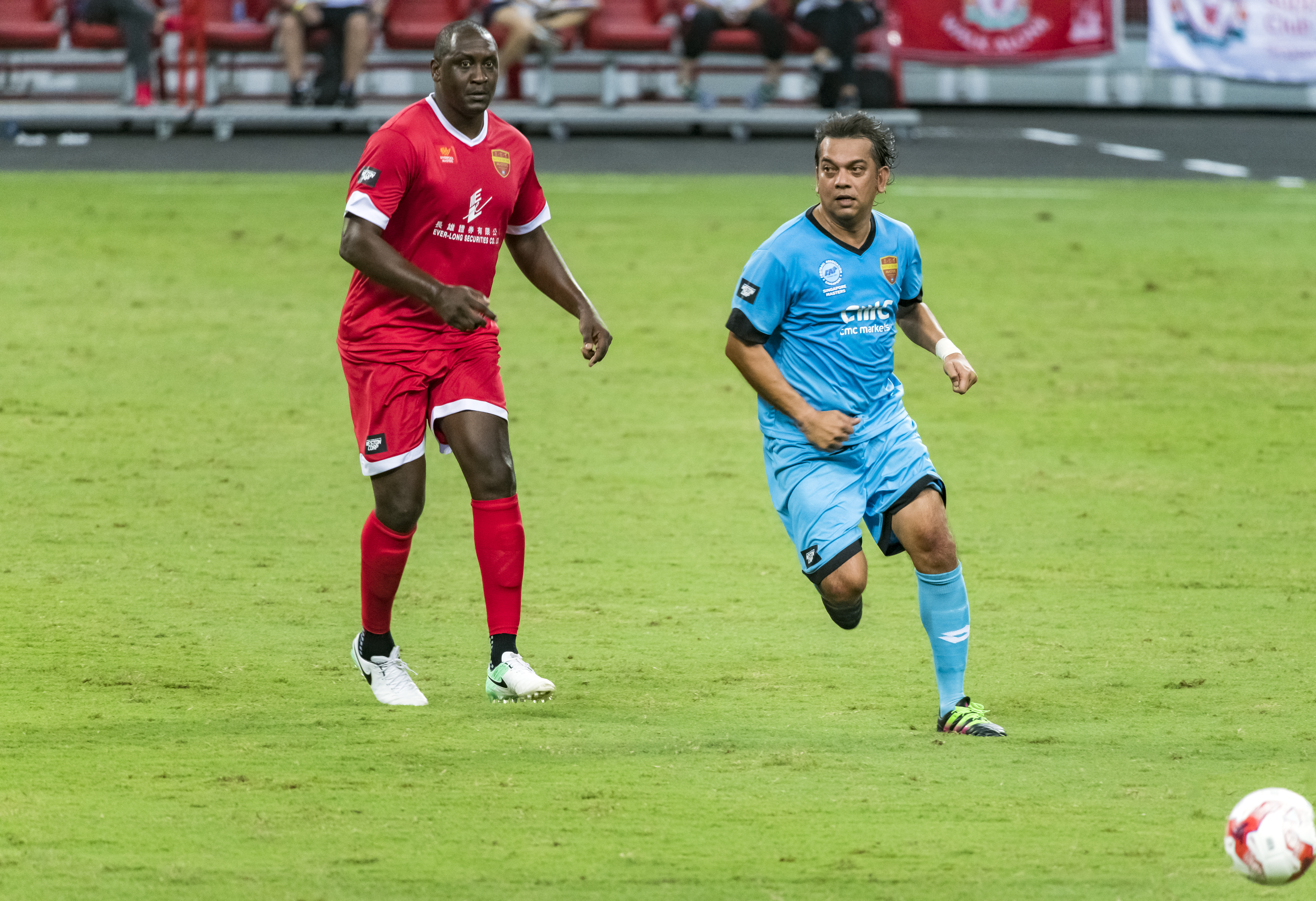 rafi ali singapore masters national stadium 2017 emile heskey